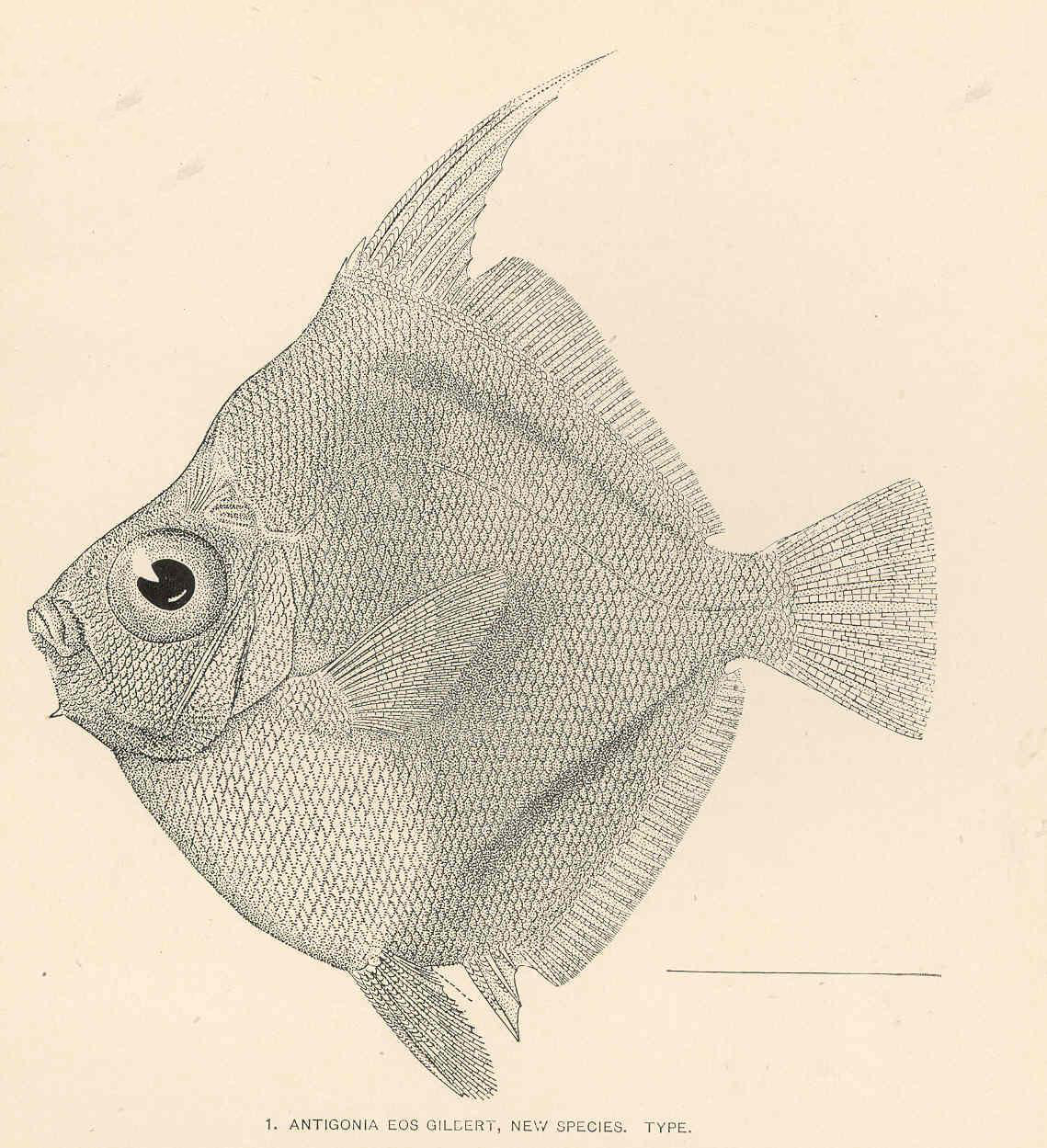 Antigonia eos Gilbert, new species. Type Subject: Antigonia Tag: Fish